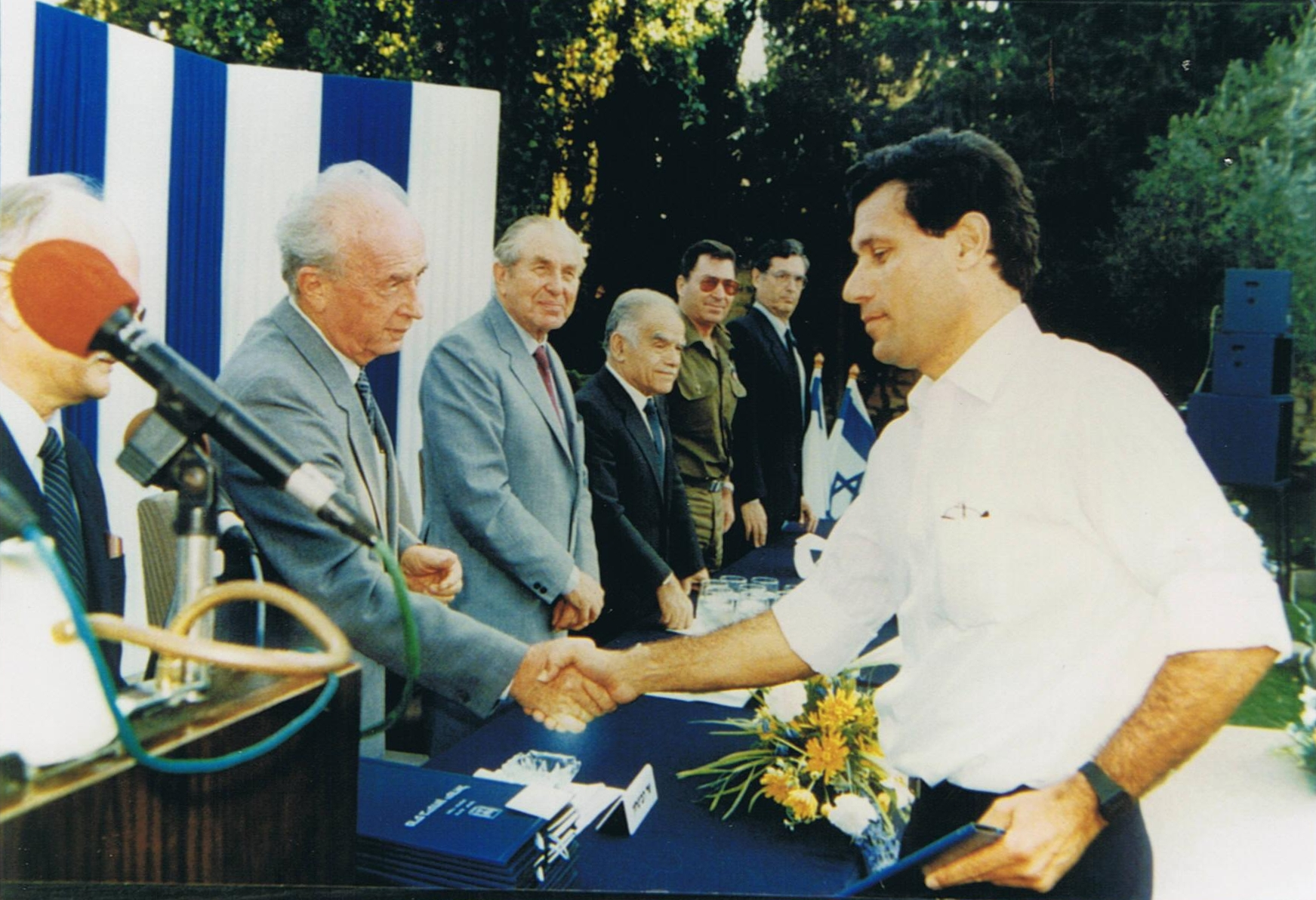 Ilan Arbel receives the Israel Defense Award from Defense Minister Yitzhak Rabin, President Chaim Herzog, Prime Minister Yitzhak Shamir and Chief of Staff Dan Shomron, 1989